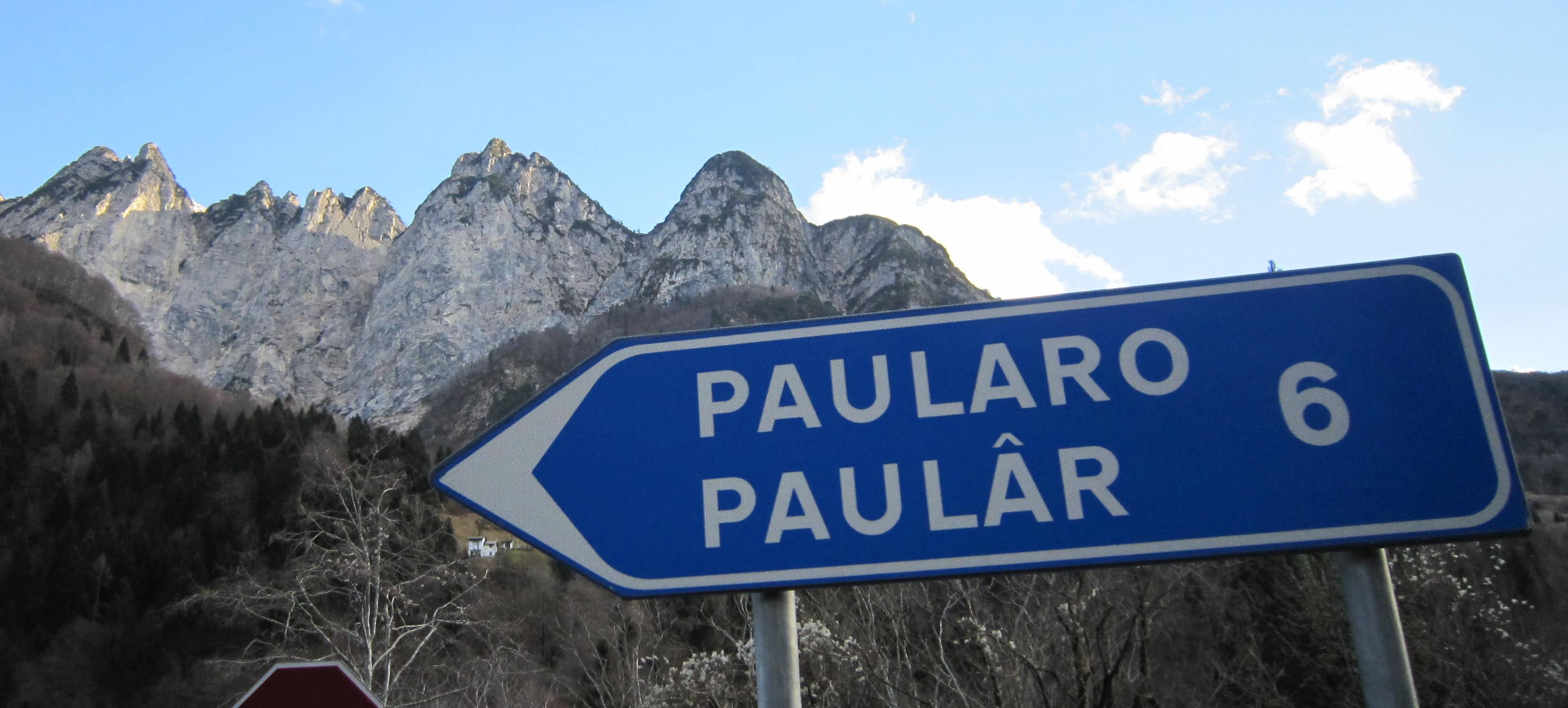 insegna stradale bilinque